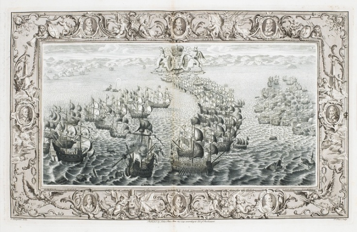 Digital reproduction of "Armada 1588. 22nd July: the burning and capture of Miguel de Oquendo's ship San Salvador" (Plate V, The Tapestry Hangings of the House of Lords representing the several engagements between the English and Spanish Fleets in the memorable year 1588)", an engraving created by John Pine (published June 24, 1739, T. Bowles in St Paul's Church Yard, & J. Bowles & Son at the Black Horse in Cornhill) from a delineation that he had commissioned Charles Lempriere to make of one of Hendrick Cornelisz Vroom's tapestries. The tapestries, commissioned in 1591 by Lord Howard of Effingham, commander of the British Fleet, were in turn based on charts and engravings made at Lord Howard's behest by Robert Adams, and were finished in 1650 (source).